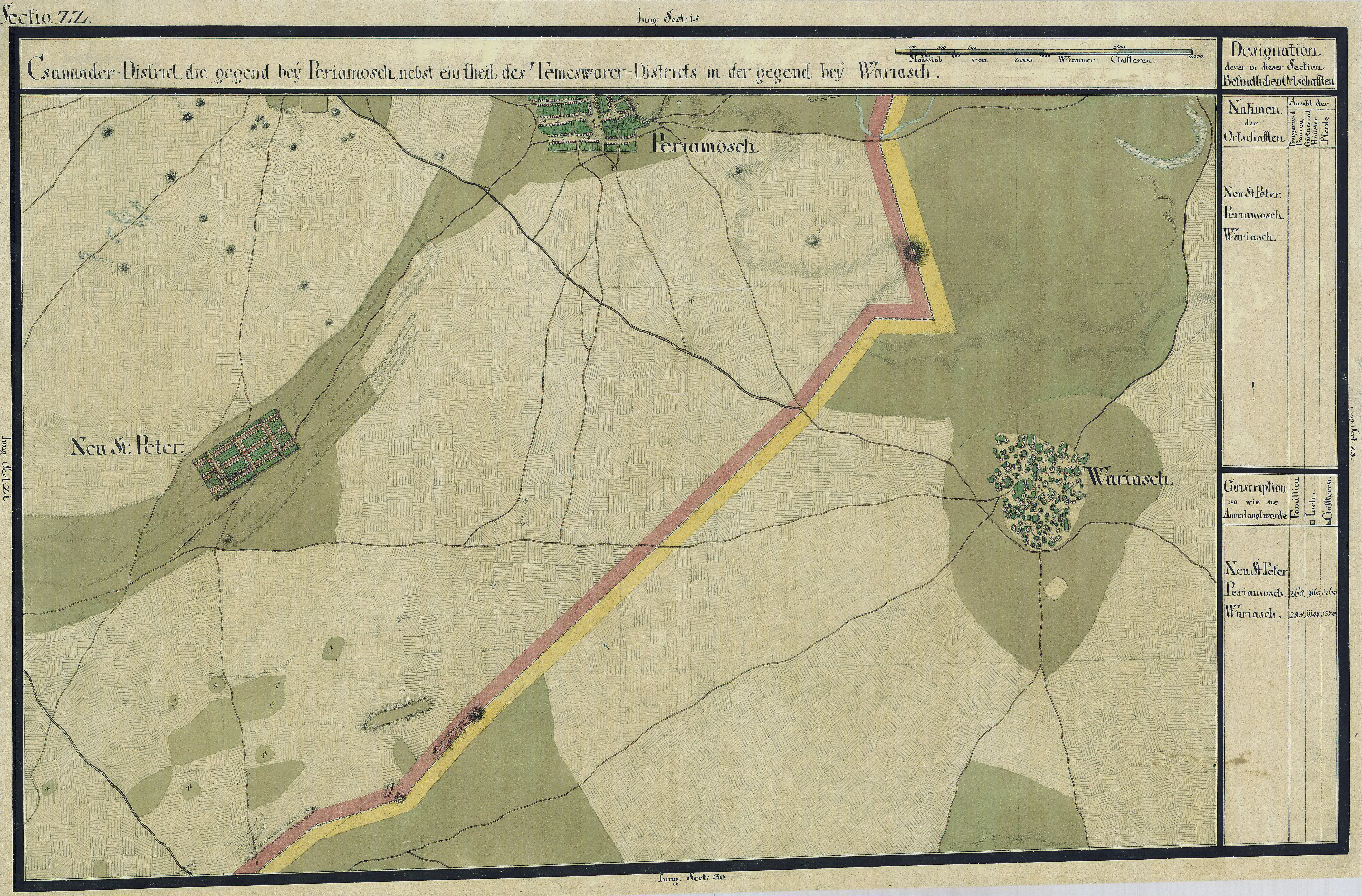 The Banat region in the cadastral maps: Josephinische Landesaufnahme, 1769-72. Josephinische Landaufnahme pg022